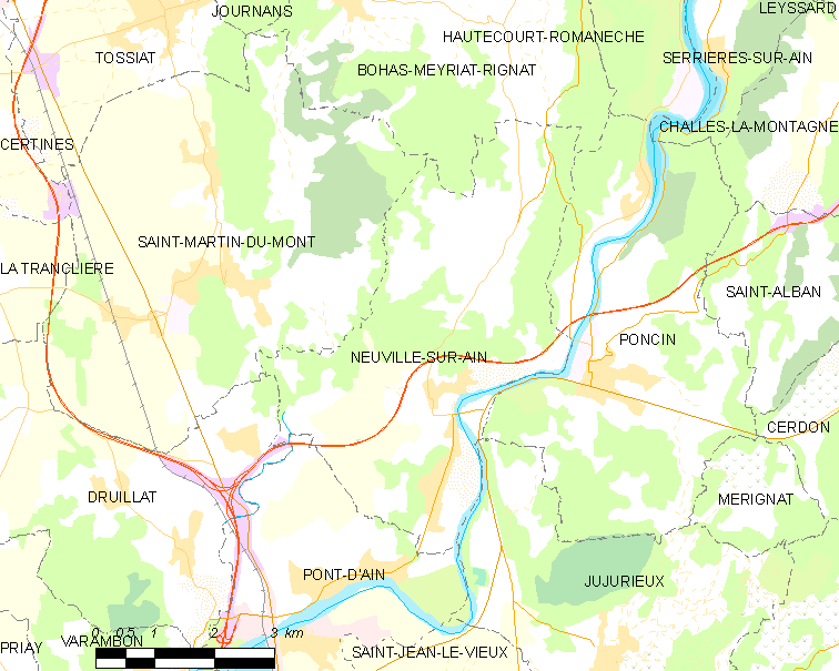 Map of French commune: Neuville-sur-Ain Map commune FR insee code 01273.png